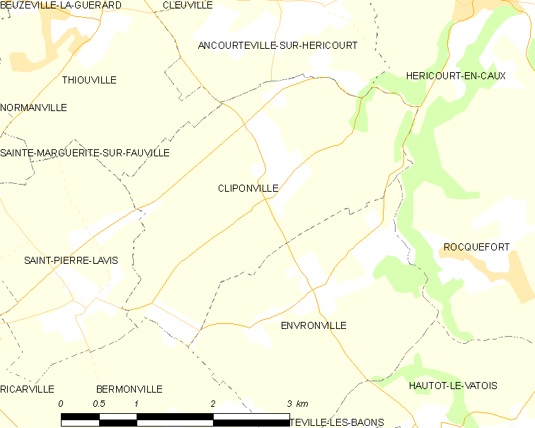 Map of French municipality Cliponville